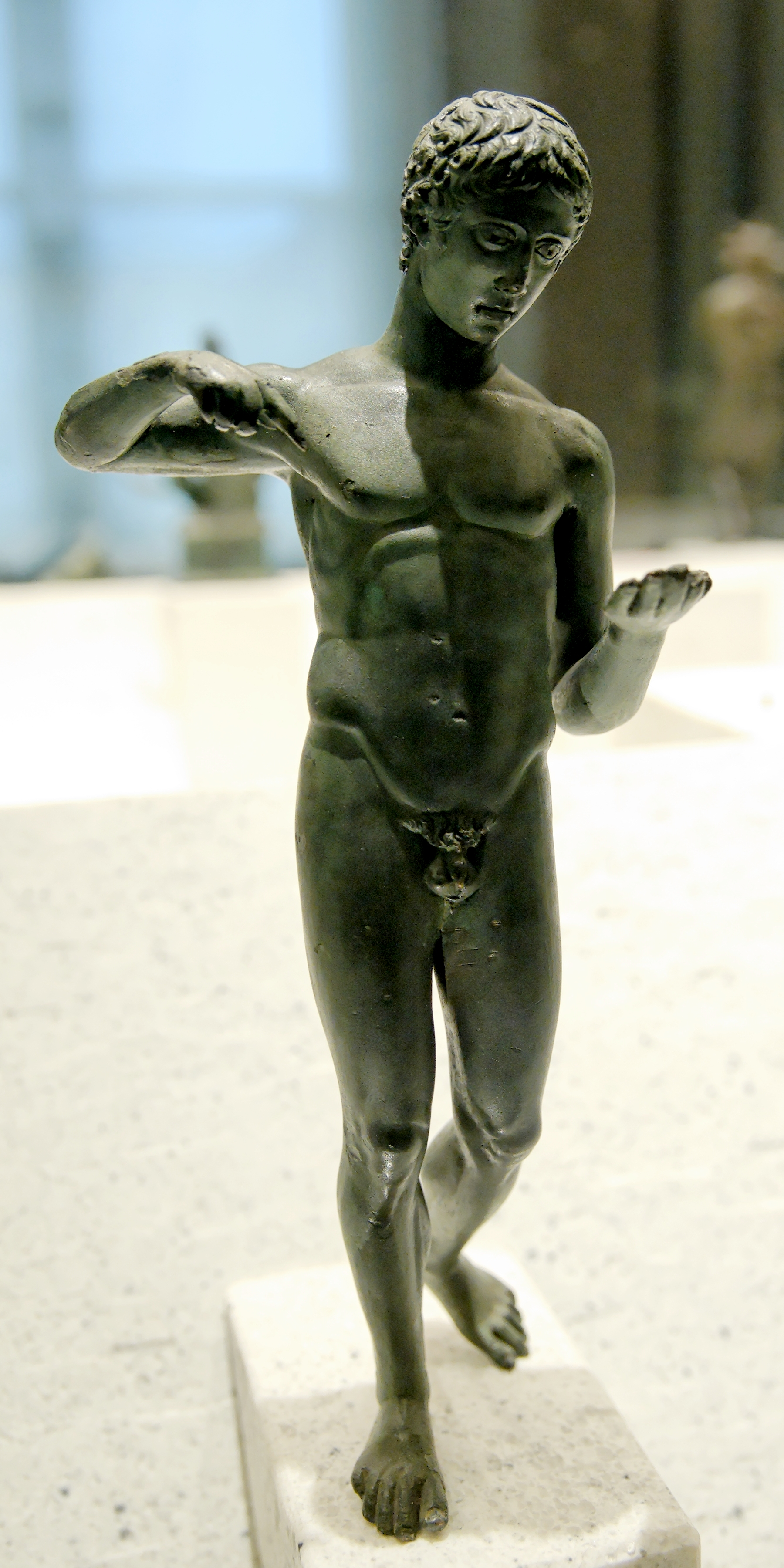 Mercury (identified by small notches on the ankles for the wings) holding a lost object, probably a tortoise. Bronze, Roman artwork related to the Marathon Boy (?), 1st century BC.